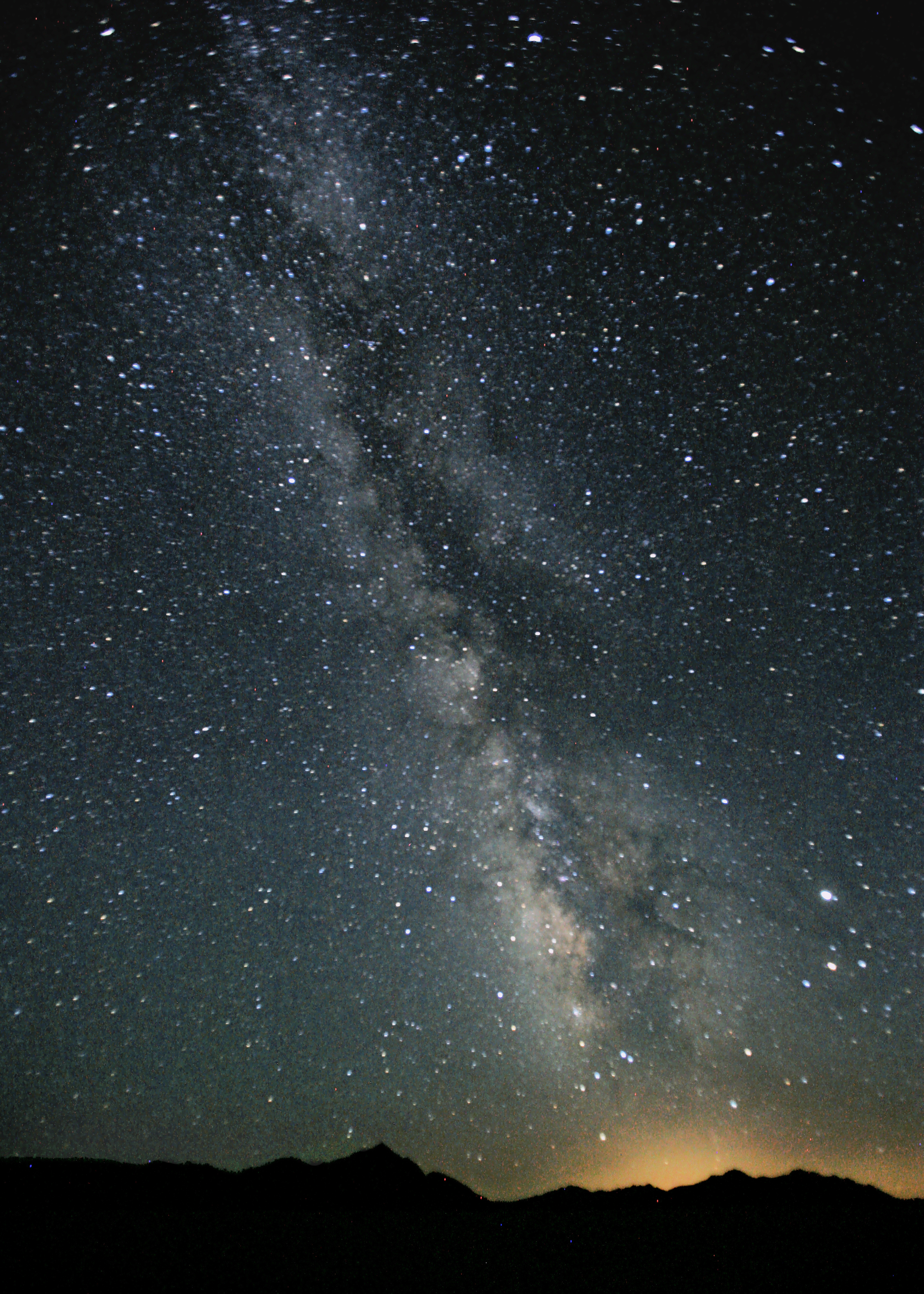 Photograph of the Milky Way in the night sky over Black Rock Desert, Nevada taken on 7/22/2007. It is a 54 second exposure taken with a tripod mounted Cannon EOS 5D digital camera with a 16mm lens, wide open at f2.8 and ISO800.Under the Milky Way